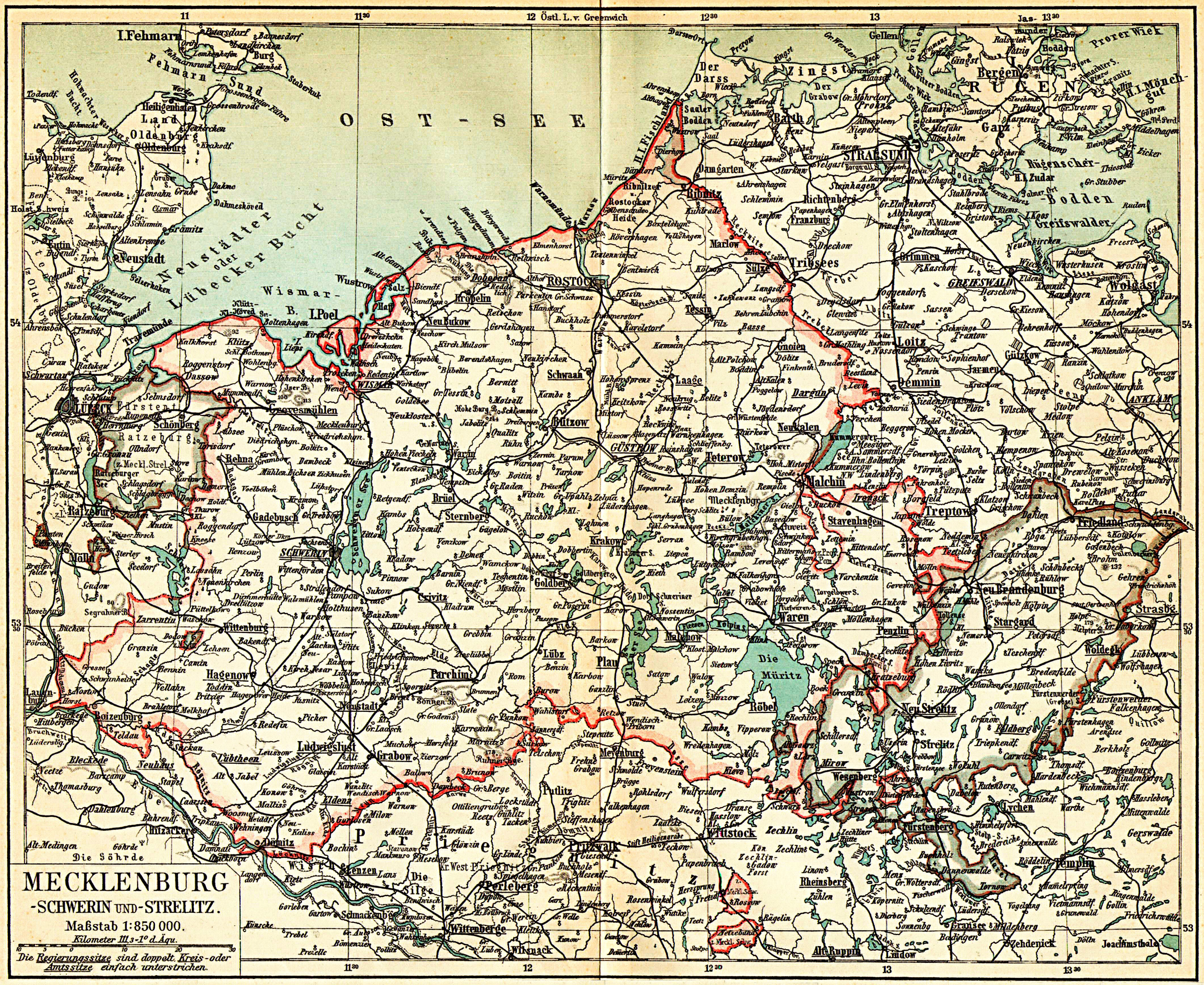 Map of Grand Duchy of Mecklenburg-Schwerin and Mecklenburg-Strelitz